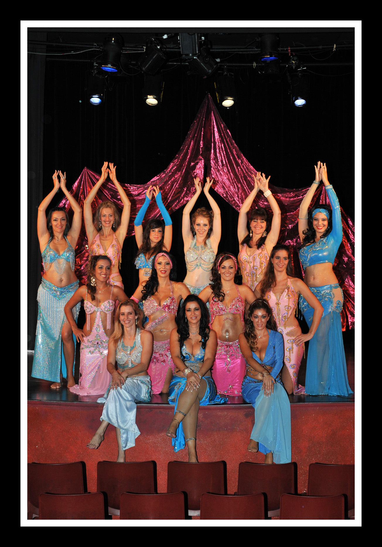 Bellydance costums from the "académie de danse orientale SANDRA" in Nice, France.